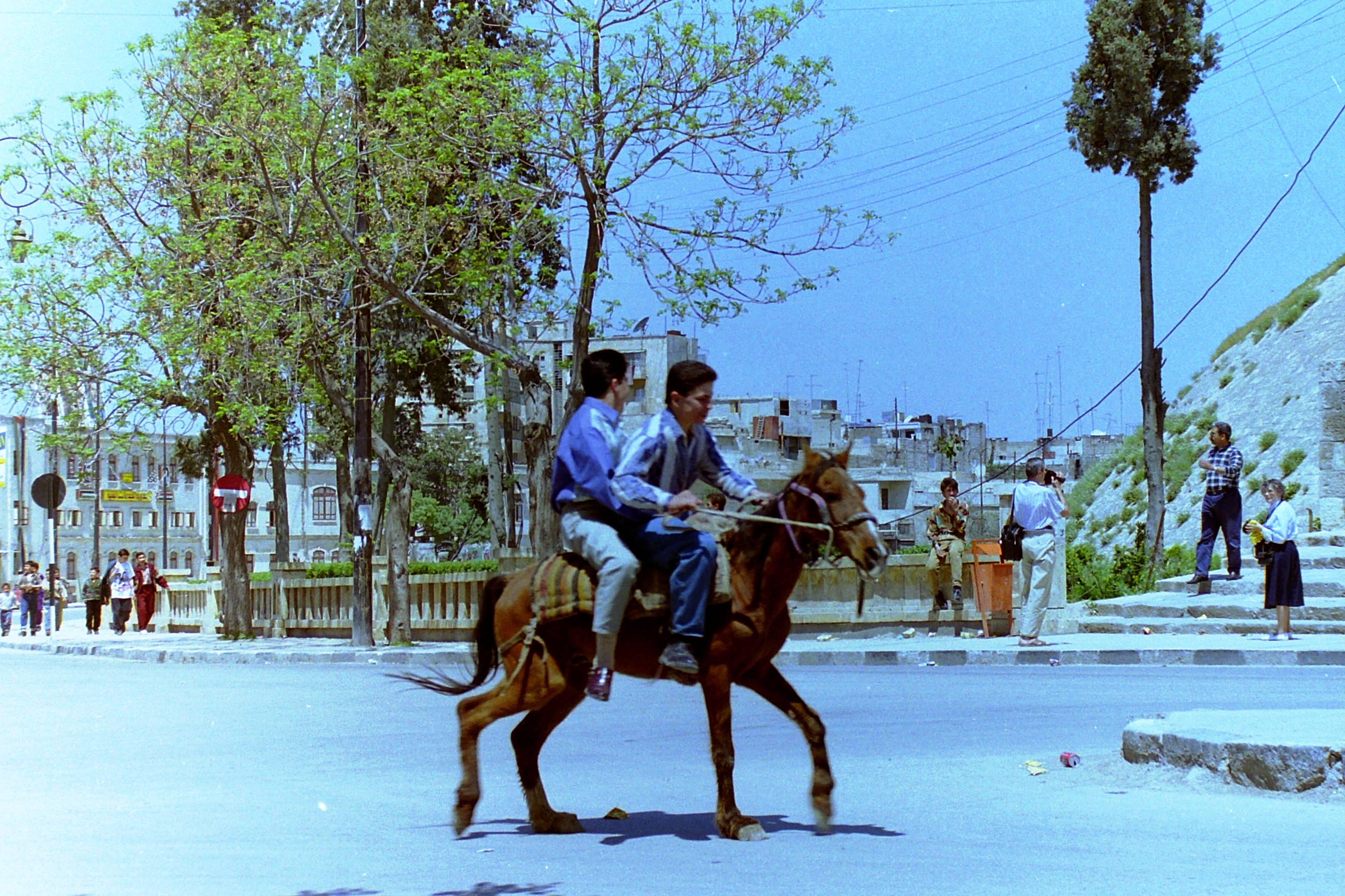 Two young men riding a horse on a street called Around the Citadel in Aleppo, Syria. In countries with strict import restrictions horses are still usual means of transport. Photo taken 1996 with a miniature camera Minox 35 PL.